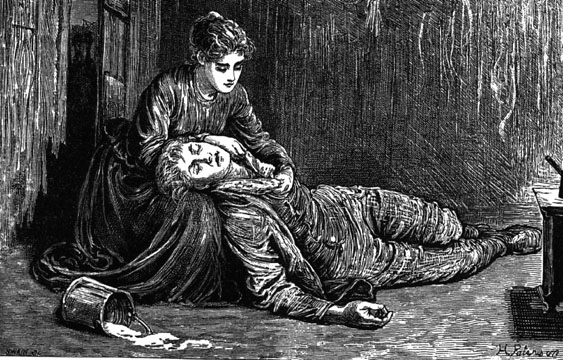 Original illustration from the first, serialised edition of Far from the Madding Crowd.